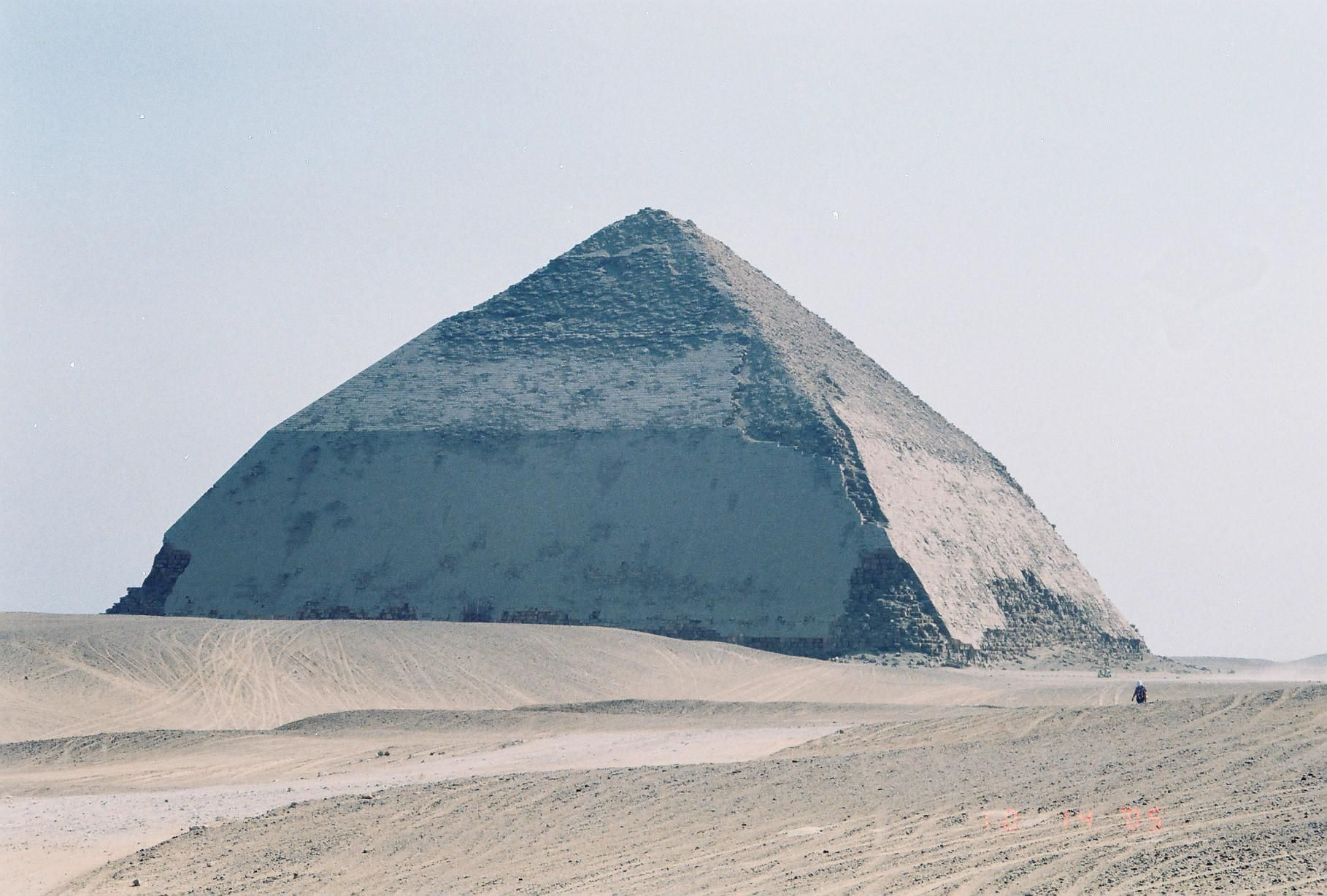 BENT PYRAMID